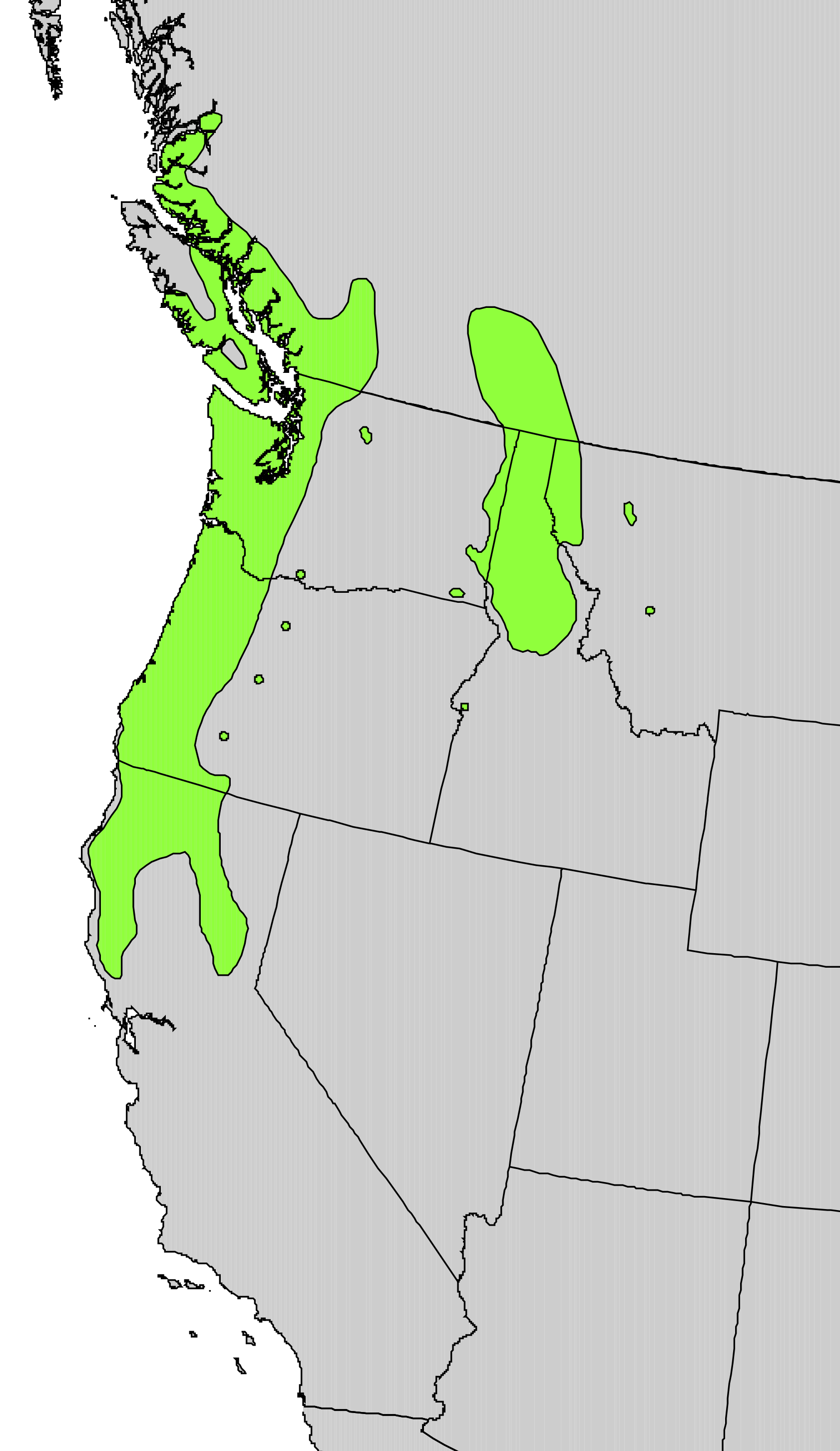 Range map of Frangula purshiana, formerly Rhamnus purshiana.